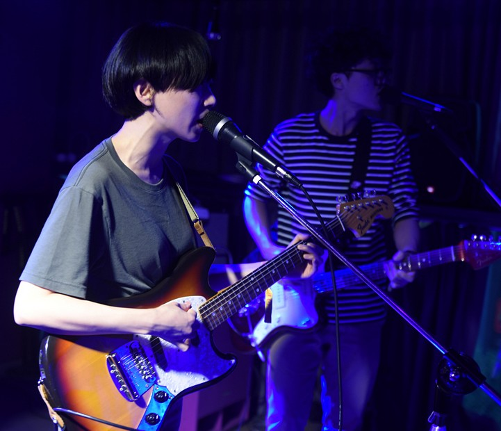 Choi Su-mi of Say Sue Me sings in Club Steel Face at Zandari Festa 2017.